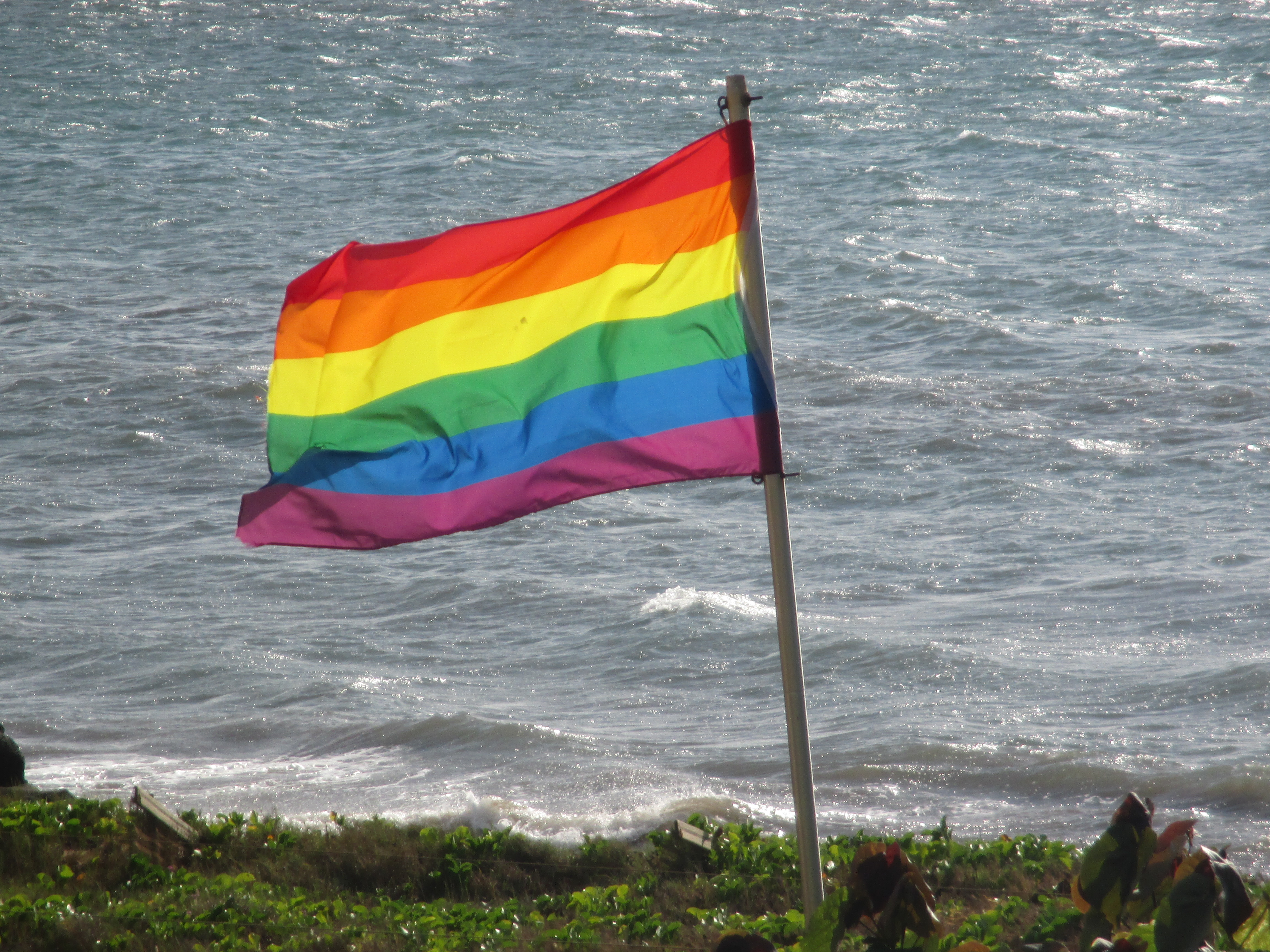 Rainbow flag flying over the Maui Sunseeker LGBT Resort